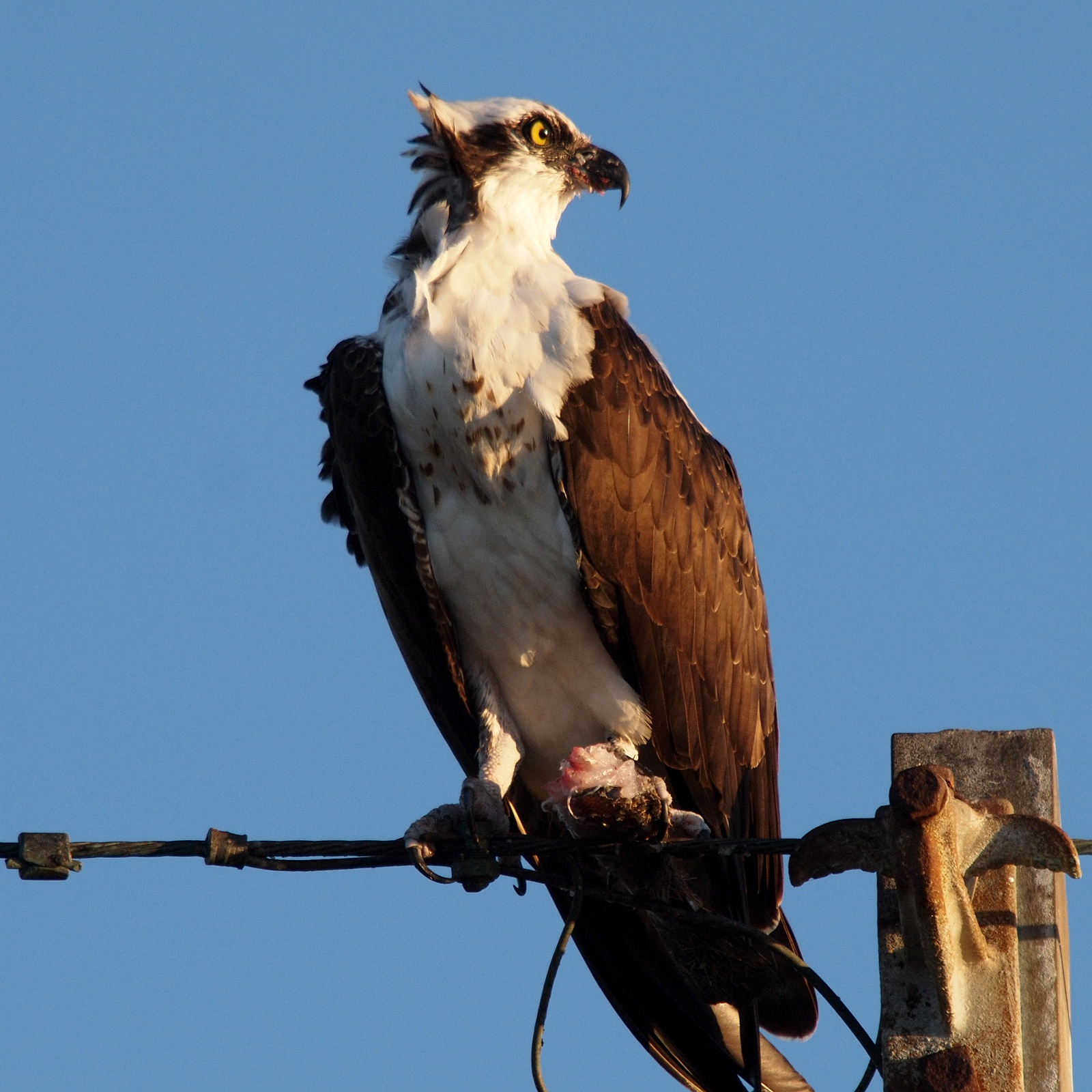 An Osprey (Pandion haliaetus) with a fist full of sushi. Photo taken with an Olympus E-P1 in the Merritt Island National Wildlife Refuge, FL, USA.Cropping and post-processing performed with The GIMP.